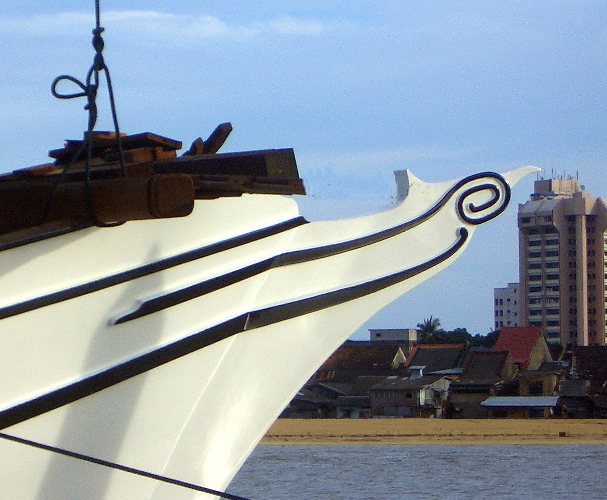 The Naga Pelangi figurehead which the Malays call gobel